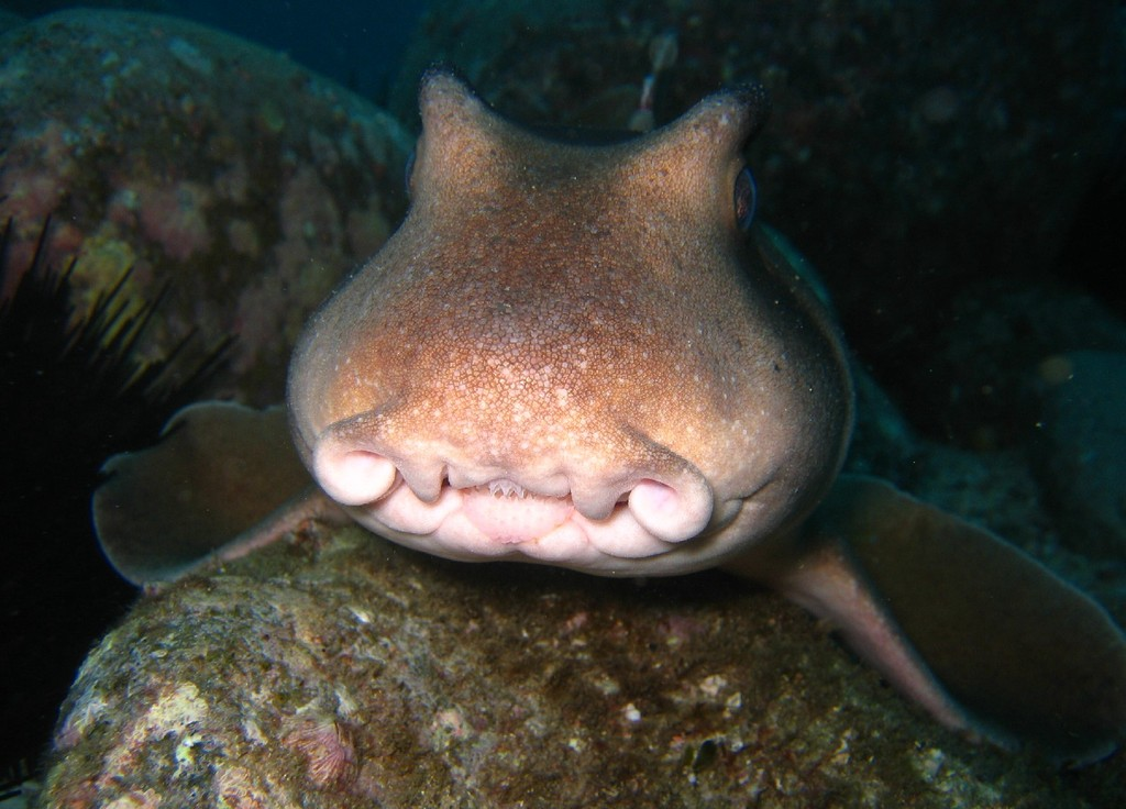 Dentition of a Crested Horn Shark (Heterodontus galeatus). Cabbage Tree Island, Port Stephens, NSW